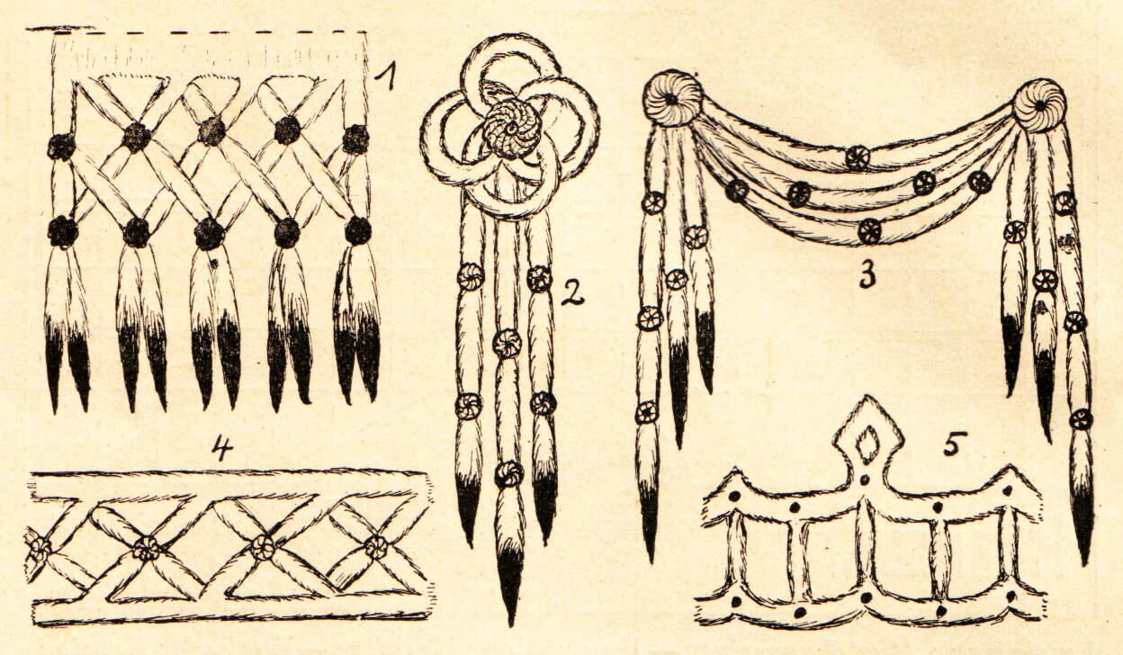 Ermine (clothing) tail trimmings